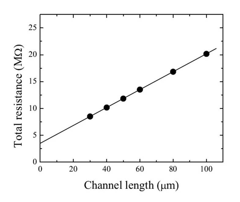 Schematic view of the contact resistance estimation by the transmission line method.